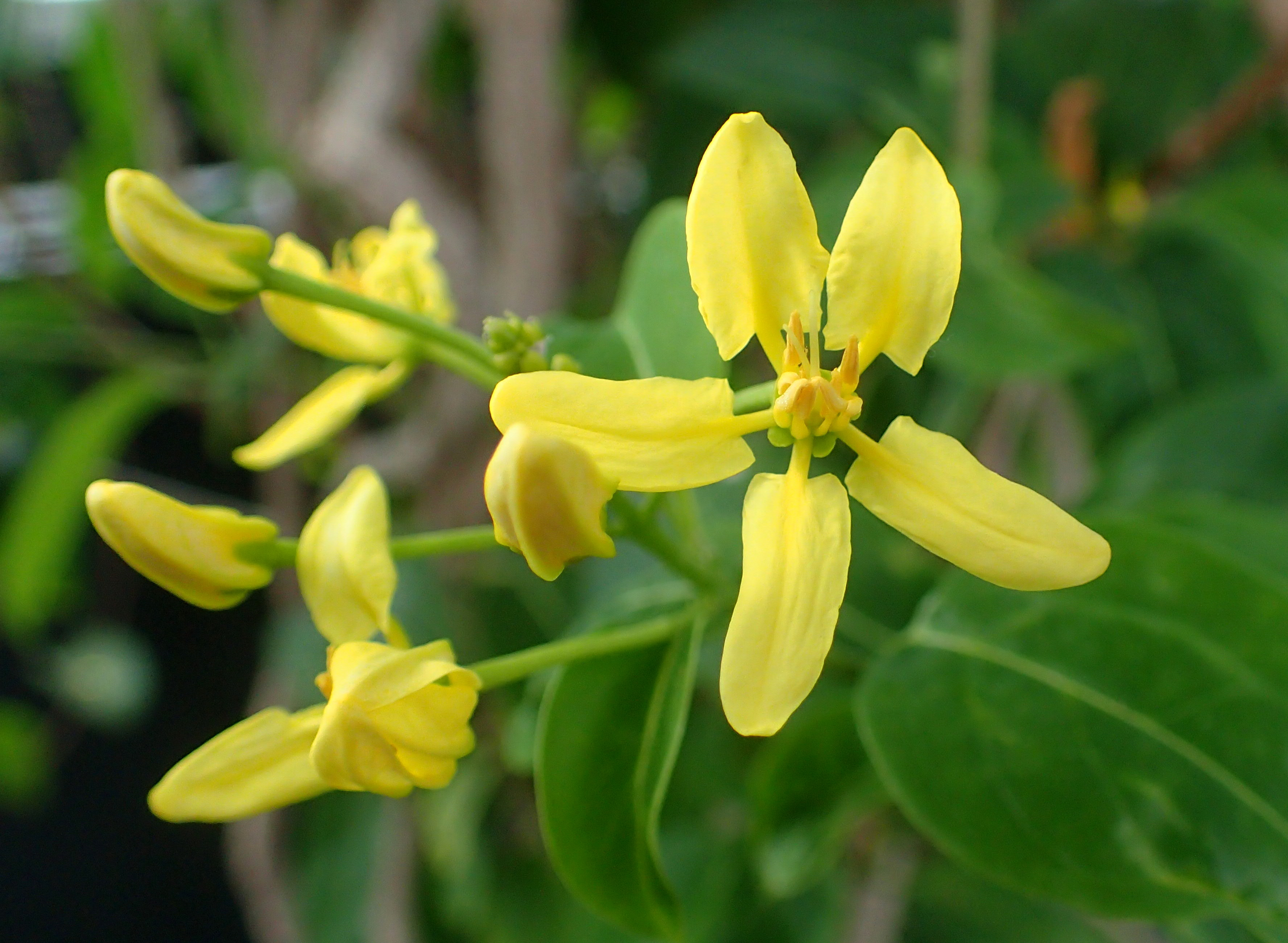 Tristellateia australasiae at the New York Botanical Garden